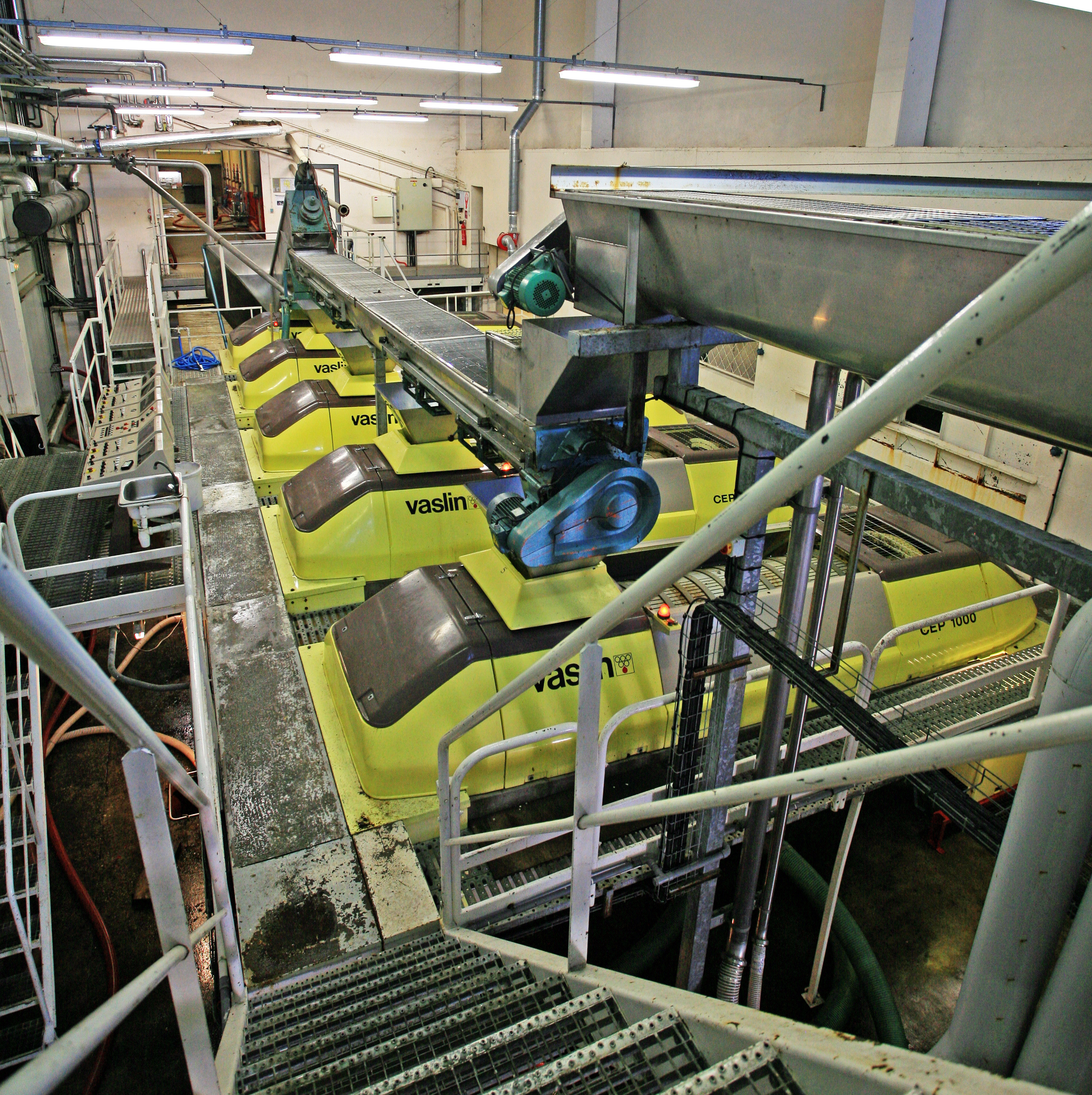 Press room with several Vaslin horizontal sloped plate presses series CEP